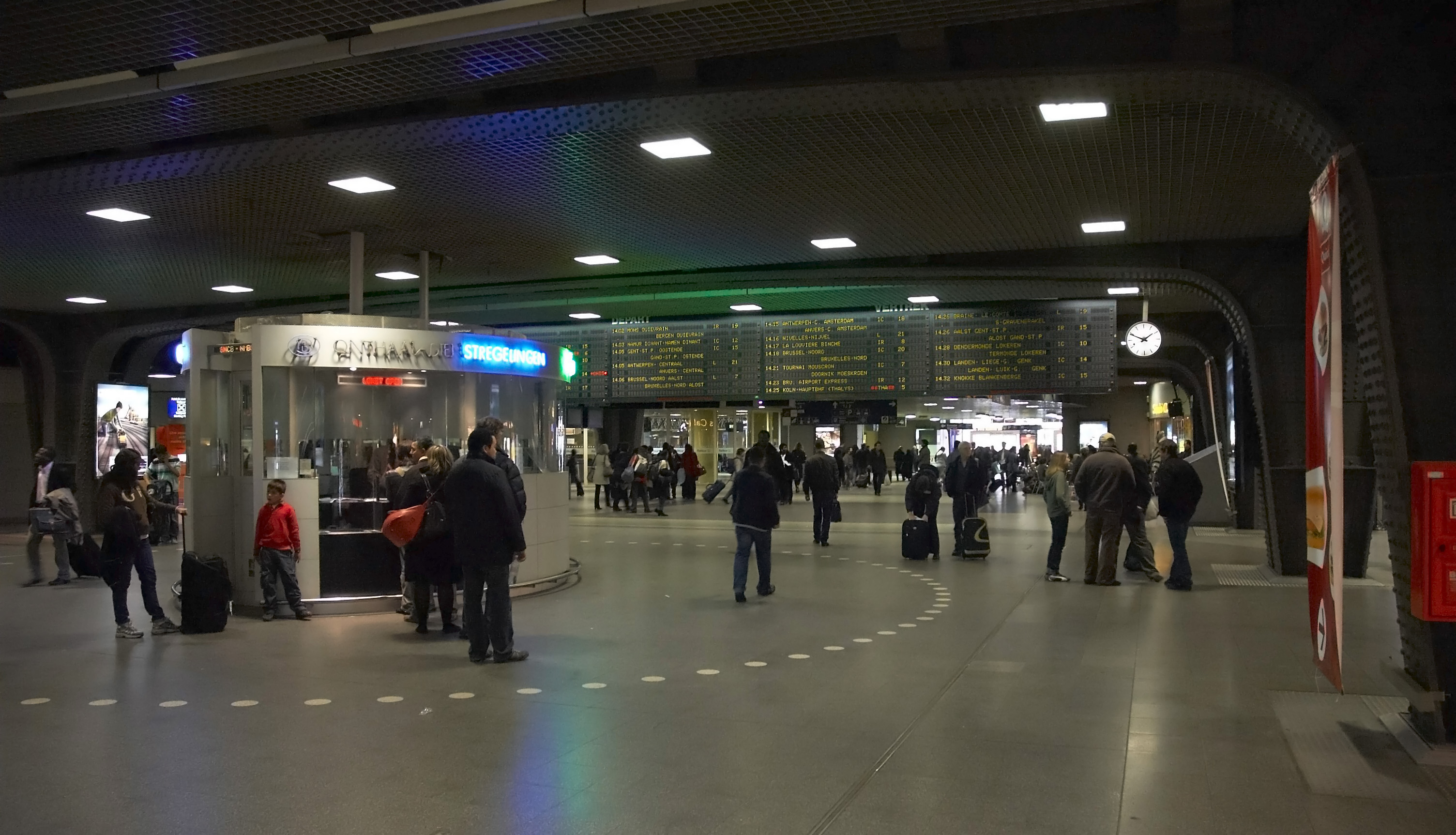 Station Brussels South central hall. - OpenStreetMap (Info)